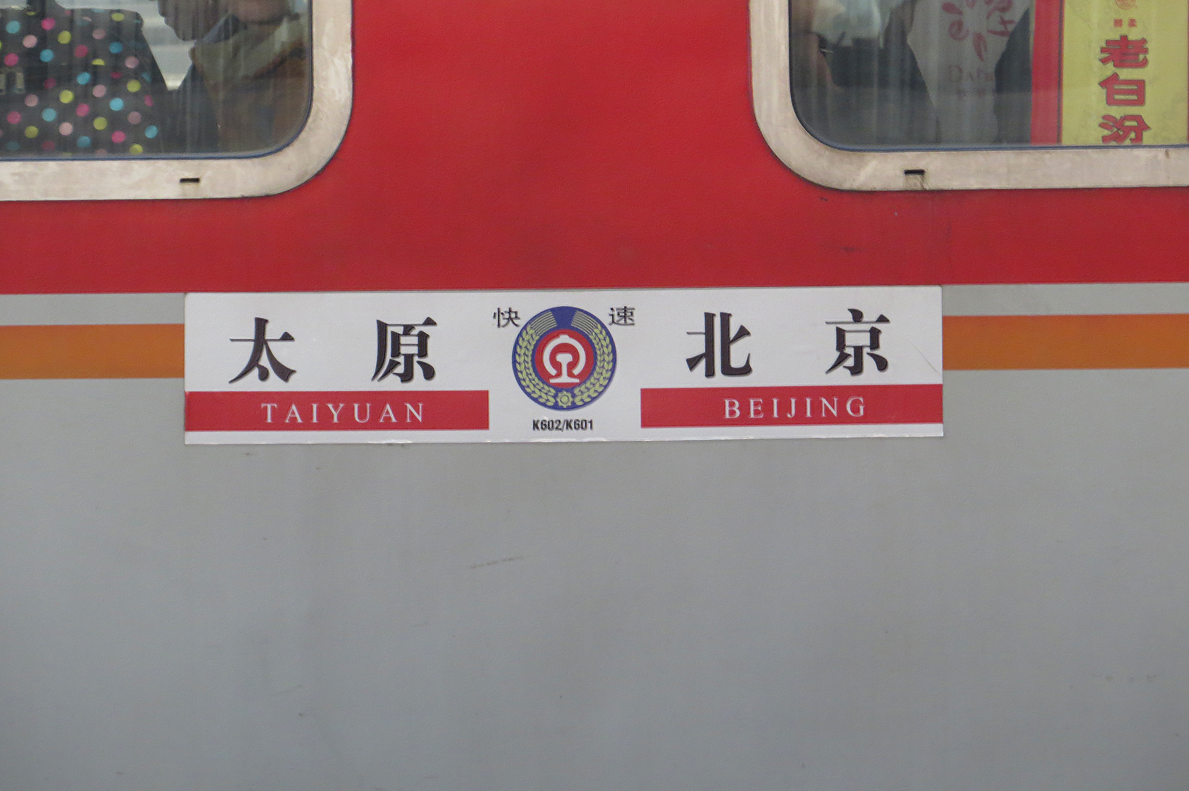 Taken at Taiyuan South Railway Station from Z70.